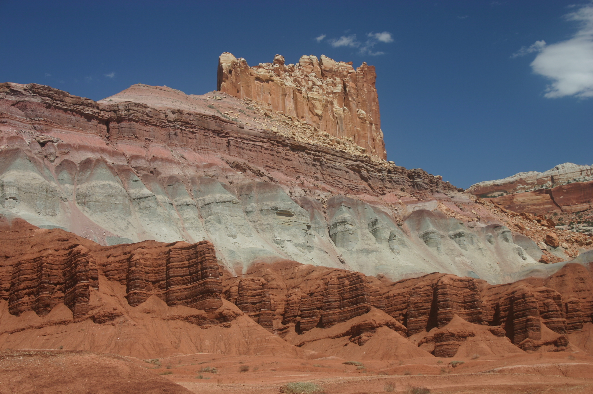 He laid the foundation of the Earth. The Castle, Capitol Reef National Park, Utah, USA. ONote: the photo upper right, contains Navajo Sandstone, not on The Castle.